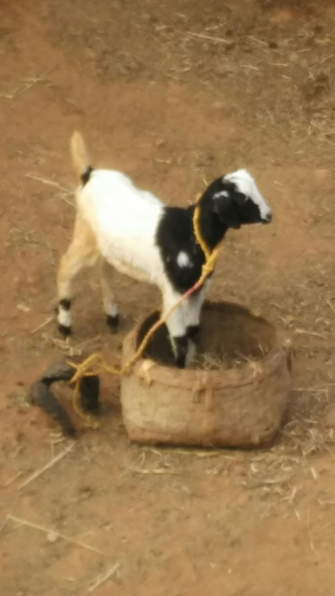 goat stand in a basket